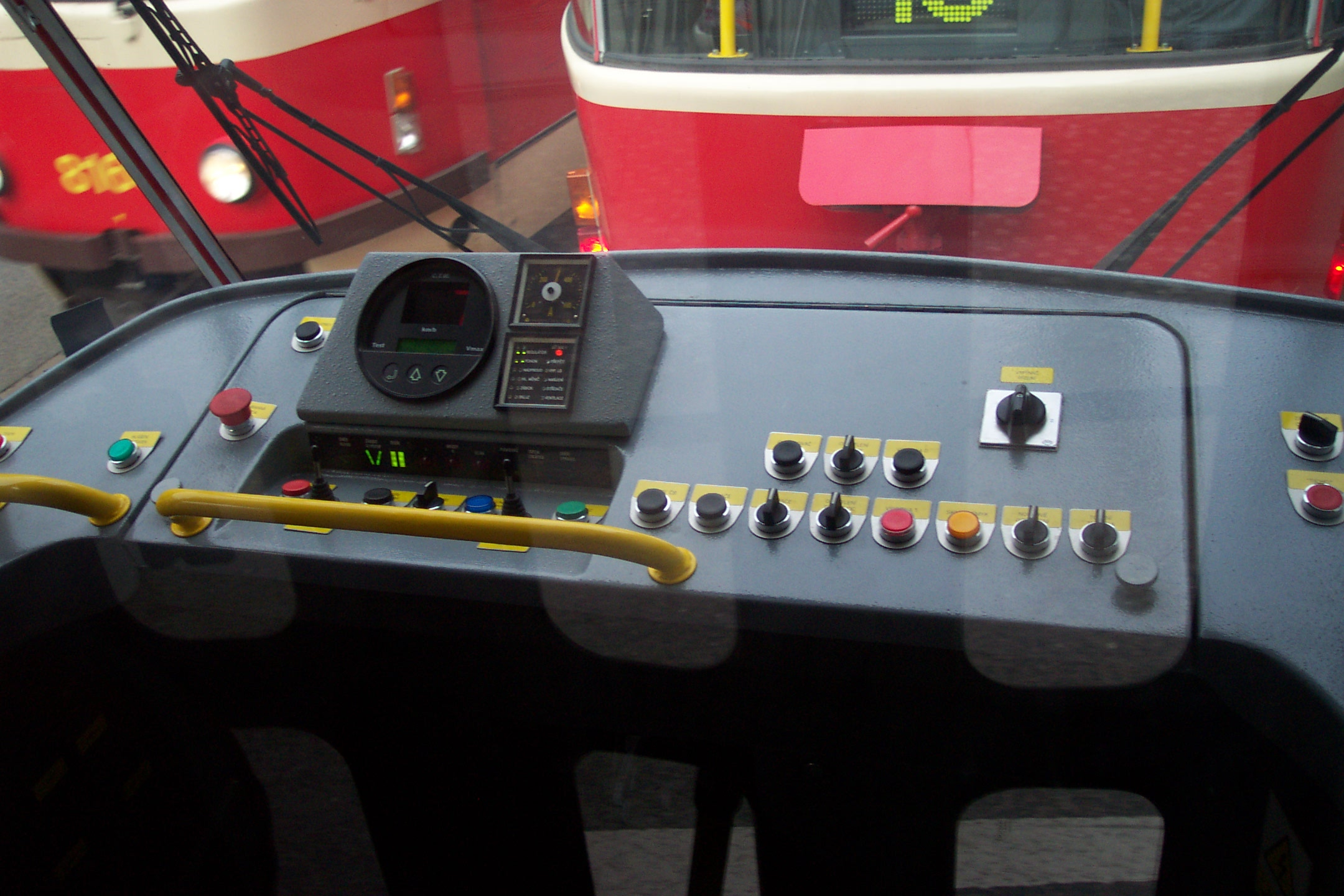 The controller pult of T3P tram in Prague.